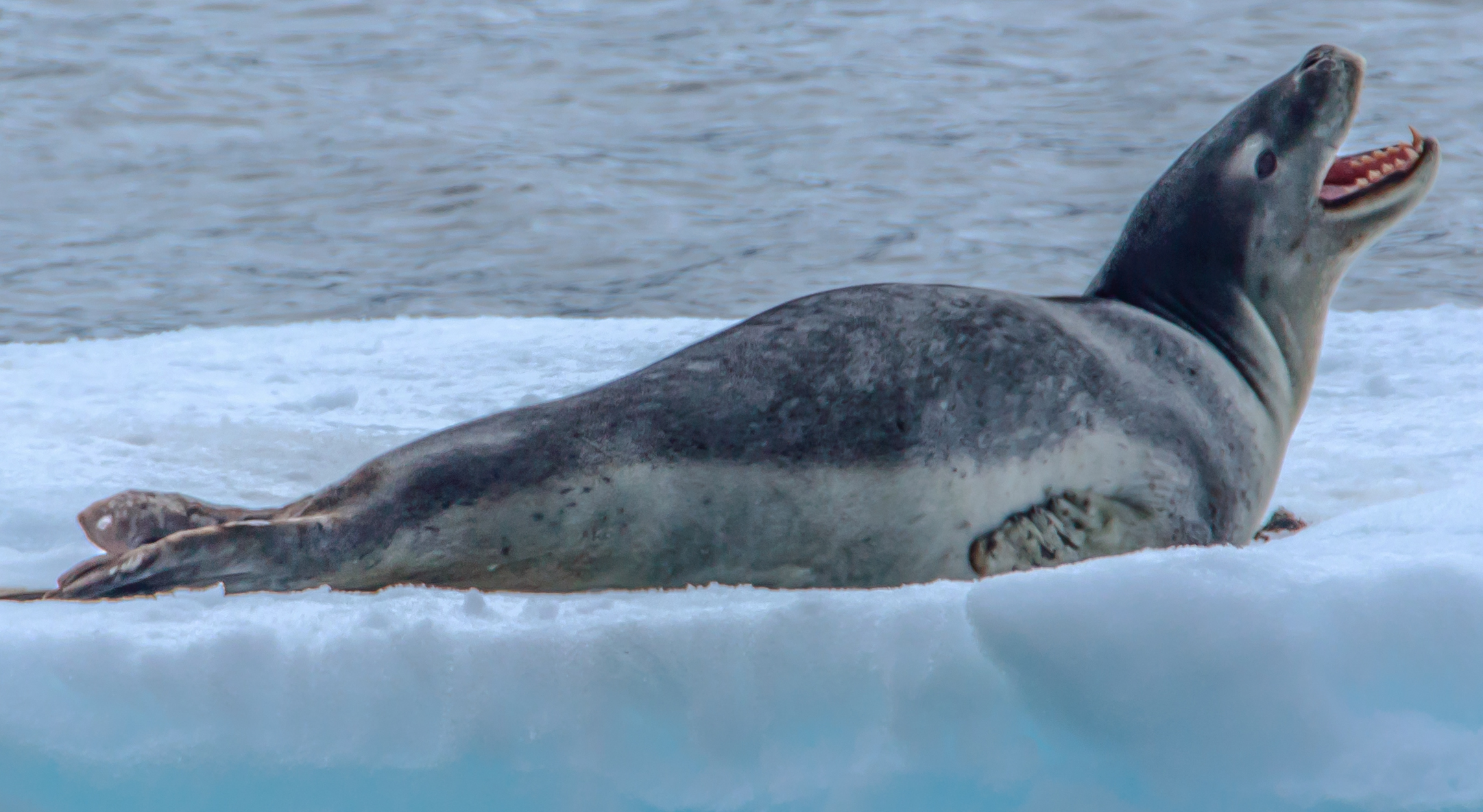 en route to Paulet Island, a tiny blip just S of Dundee Island...the much feared..by penguins..Leopard seal (Hydrurrga leptonyx) looking around for his next meal...